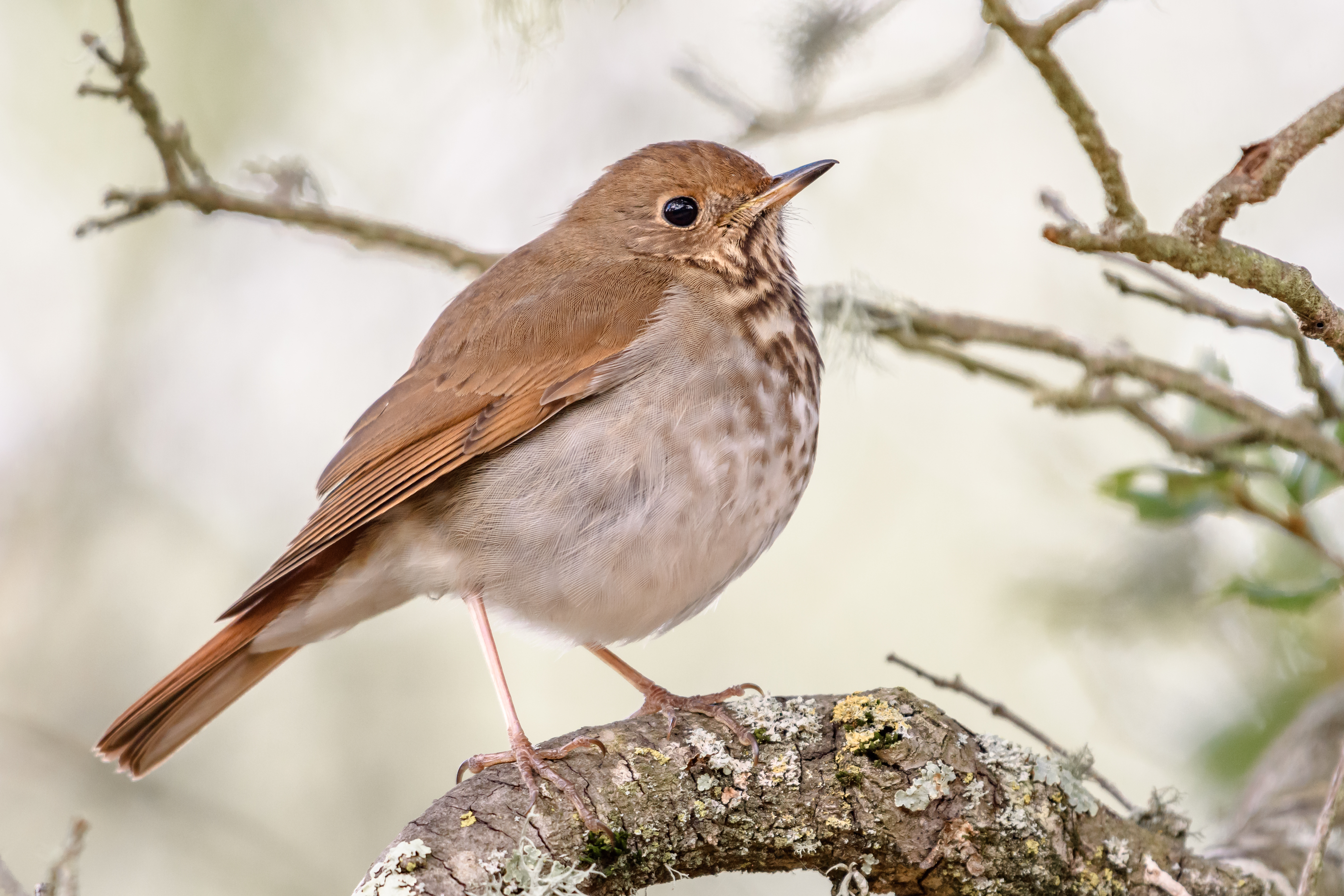 Sobrante Ridge Regional Reserve, Richmond, California